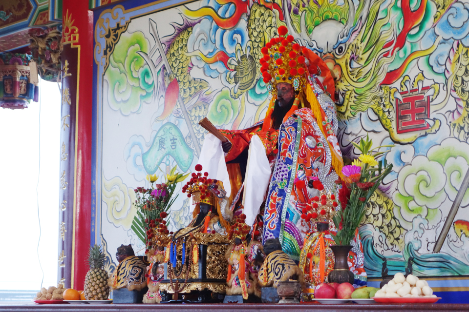 青礁亭遙祭